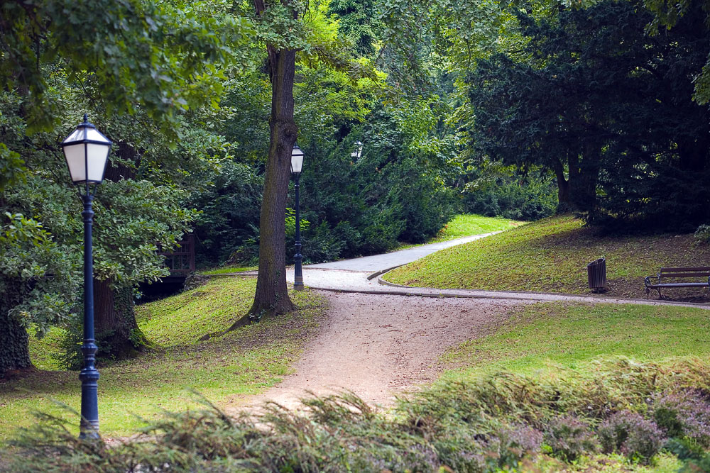 Maksimir Park